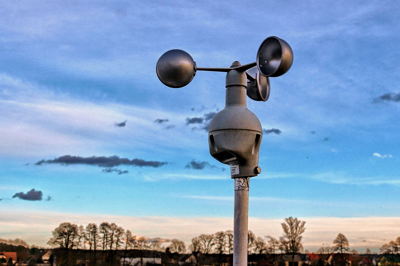 Weather station in Radzyń